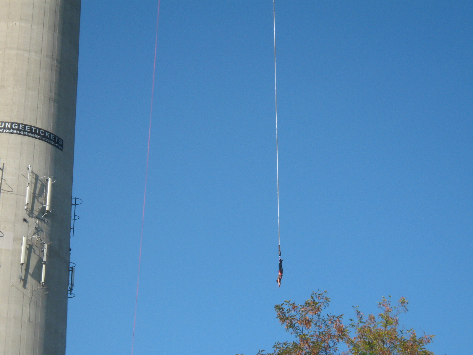 Austria, Vienna, Donauturm